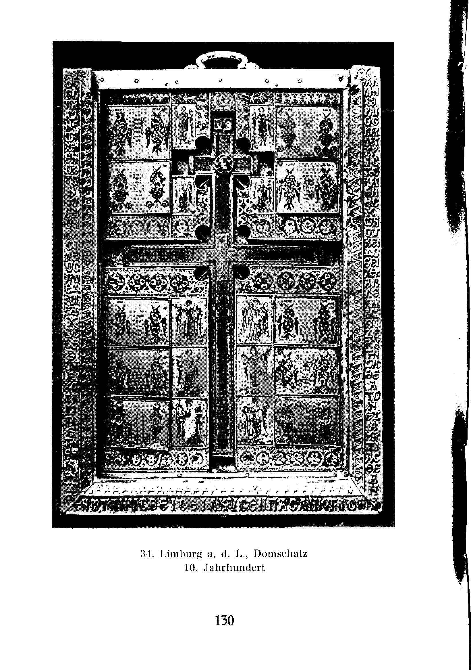 This is a scan of the historical document